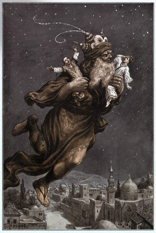 Djinni flying away with two people – illustration for “Aladdin” from The Arabian Nights Stock Photo ID: E3662 Model Released: No Release Property Released: No Release Date Created: ca. 1900 Credit: © Bettmann/CORBIS License Type: Rights Managed (RM) Category: Historical Collection: Bettmann Max File Size: 38 MB - 4527px × 3041px • 15.00in. × 10.00in @ 300 pp